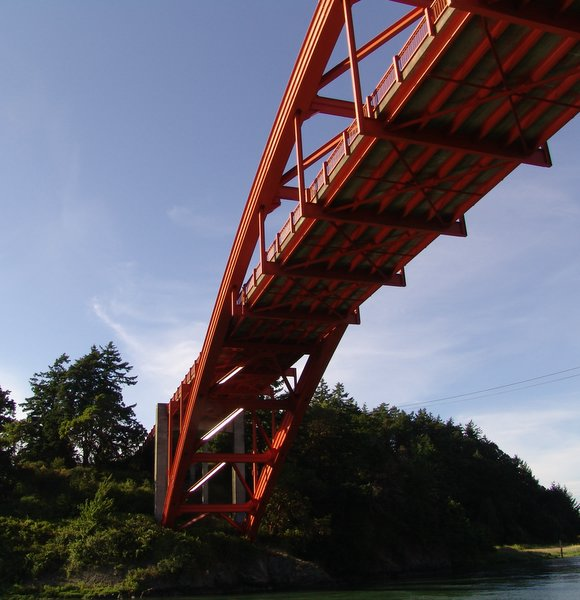 Rainbow Bridge in La Conner, Washington. Taken from the Swinomish Channel